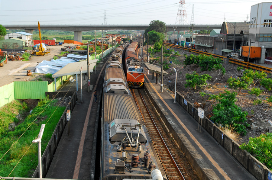 BaLin Station is a small local train station of Taiwan's Western main rail line. In the photo an EMU500 commuter train is stopping by the platform while a ChuKuang Express passing by.